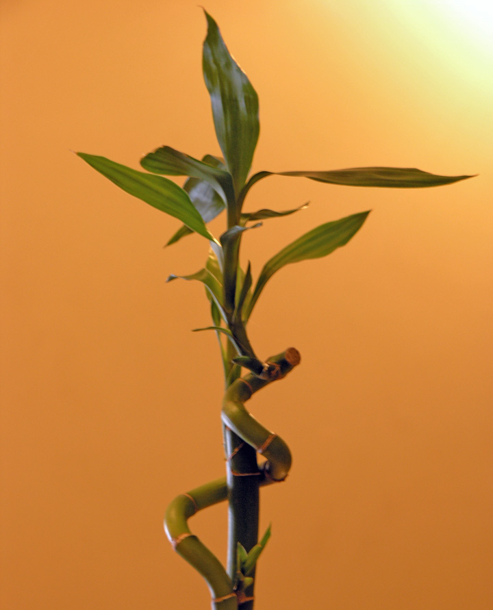 It shows a "Lucky bamboo". This is Dracaena sanderiana.